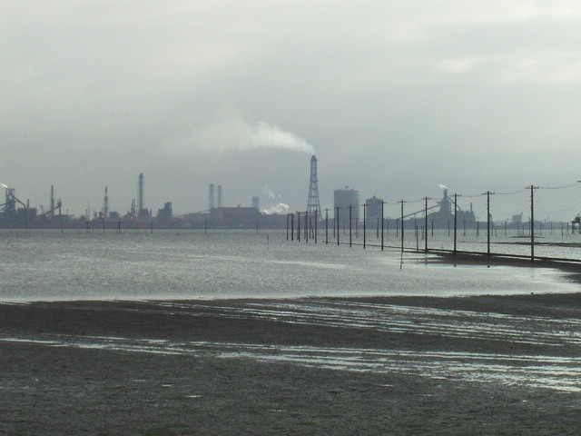 This place is north direction of the Kisarazu port. This photographed at Egawa seaside in Kisarazu city, Chiba, Japan. Background is Nippon Steel Kimitu.